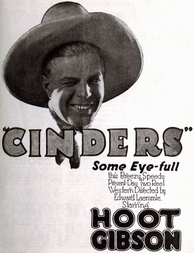 Advertisement for the American western short film Cinders (1920) with Hoot Gibson, on page 39 of the November 6, 1920 The Moving Picture Weekly.